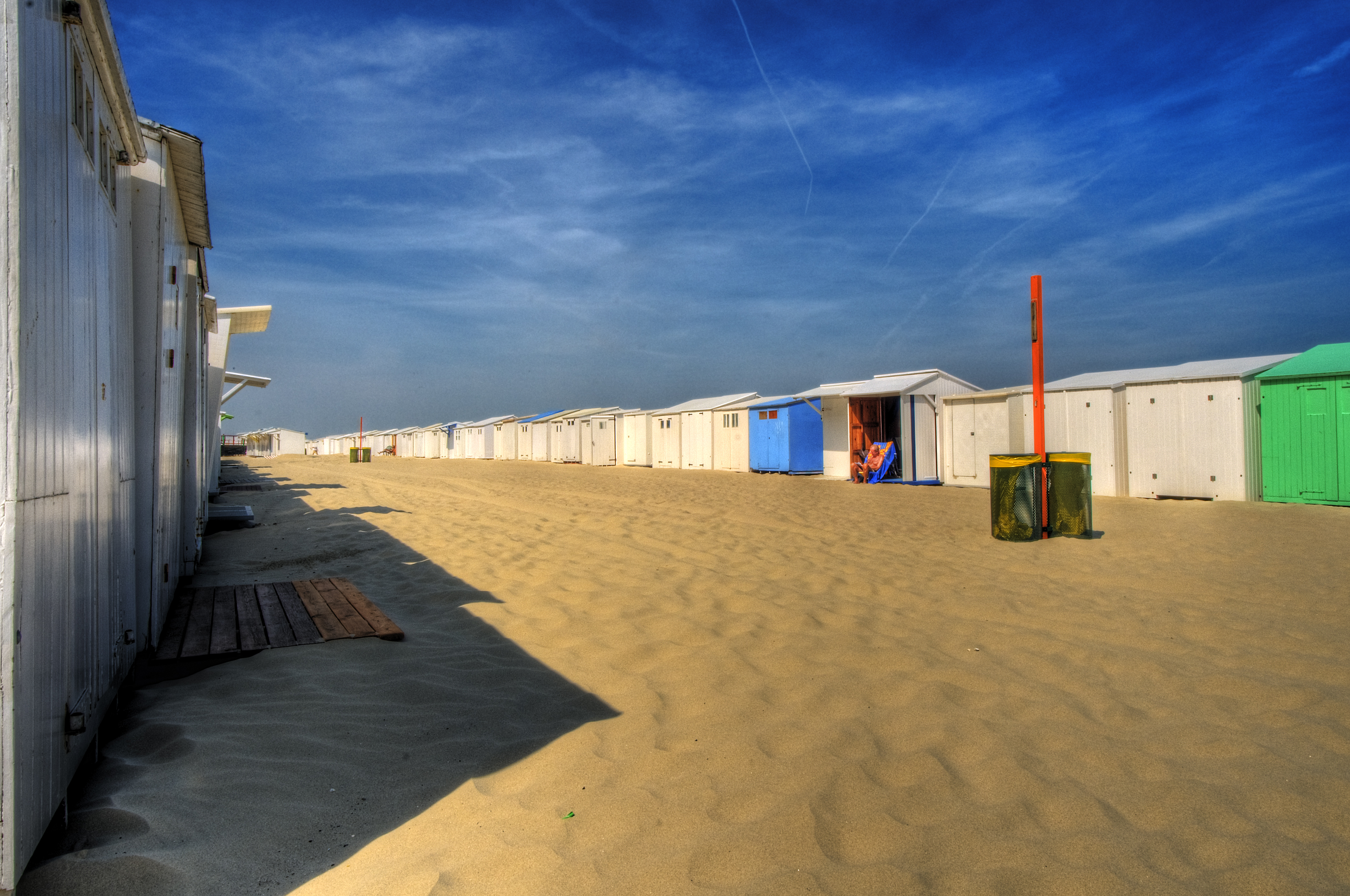 Blankenberge is a municipality in the Belgian province of West Flanders. The municipality comprises the town of Blankenberge proper and the settlement of Uitkerke. There is a sandy beach and a structure unique along the Belgian coast: a 350-m long pier, constructed in 1933.